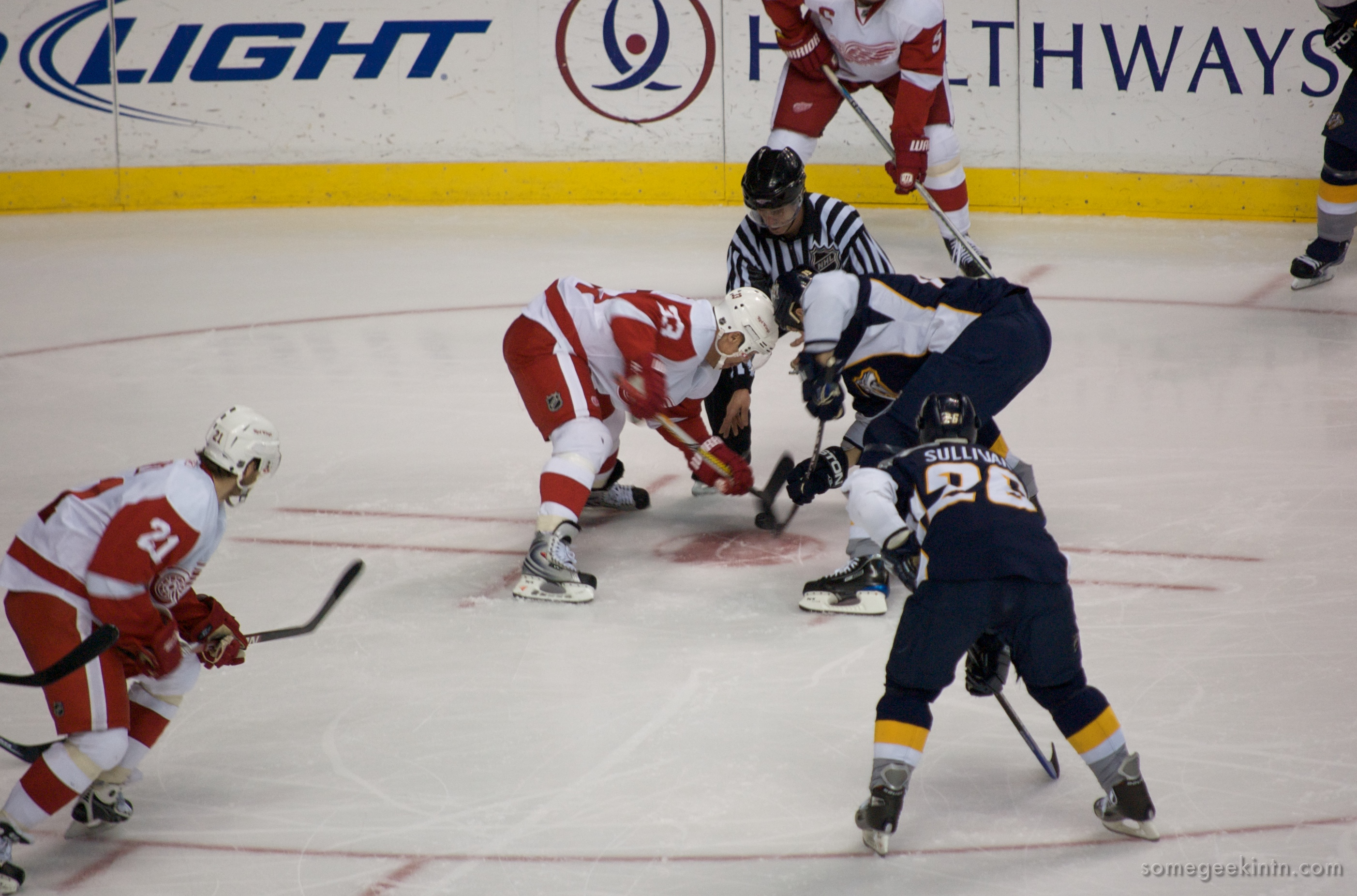 Face off Red Wings (white and red) versus Predators